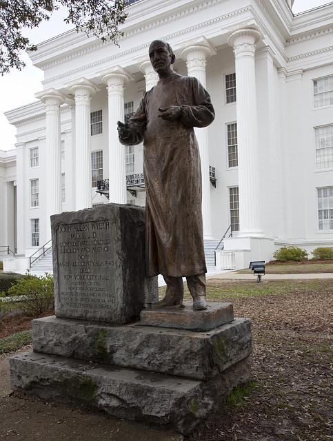 Statue of John Allan Wyeth, Confederate soldier, surgeon and author, on the grounds of the Alabama State Capitol in Montgomery, Alabama.